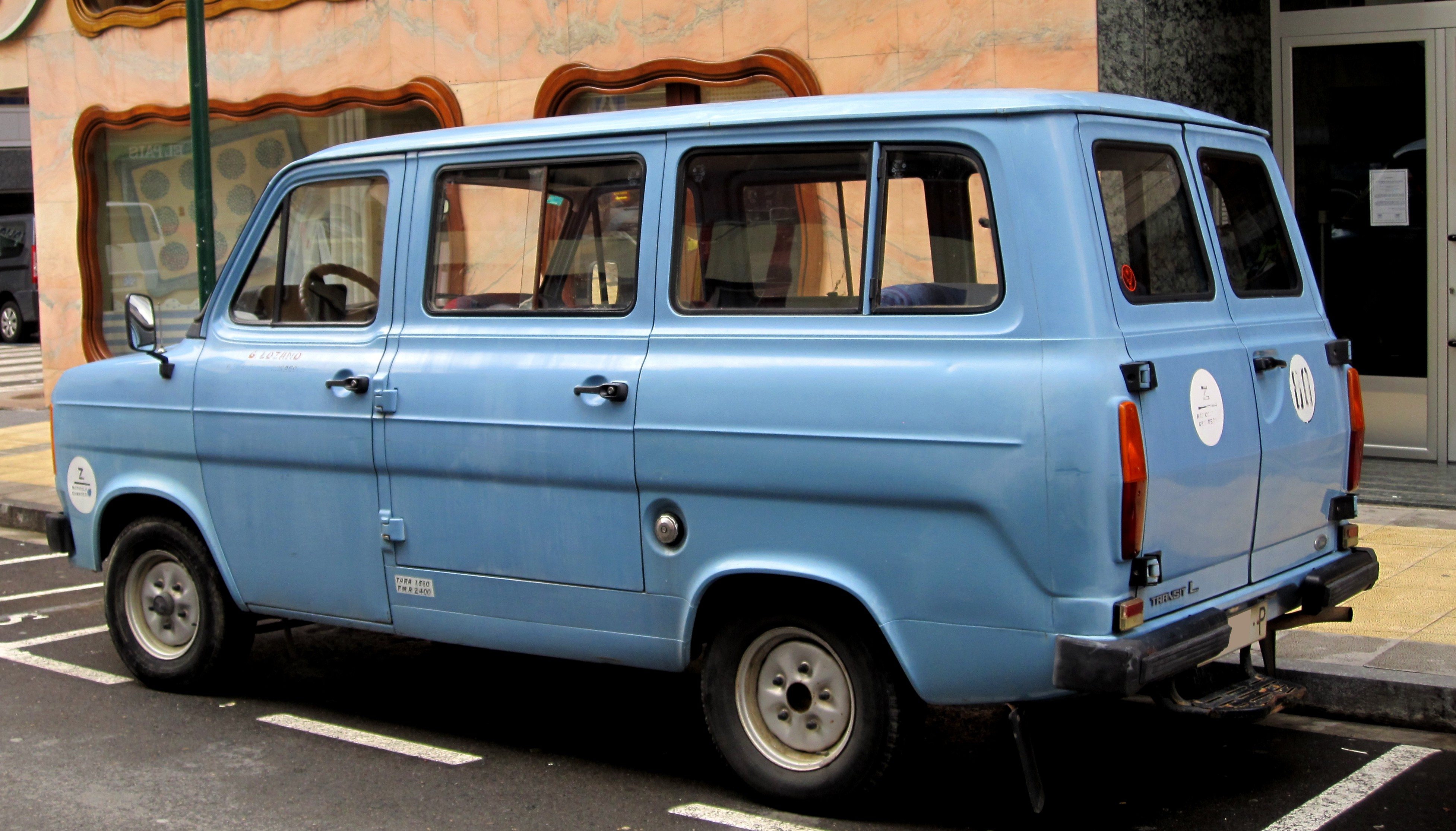 So nice! I finally managed to snap this one that I had seen months ago. Such a nice and well cared for MKII Transit, you certainly don't see many of them whatsoever and seeing one this nice is quite a find. It had Zaragoza (Aragón) plates though it was seen in Cantabria.